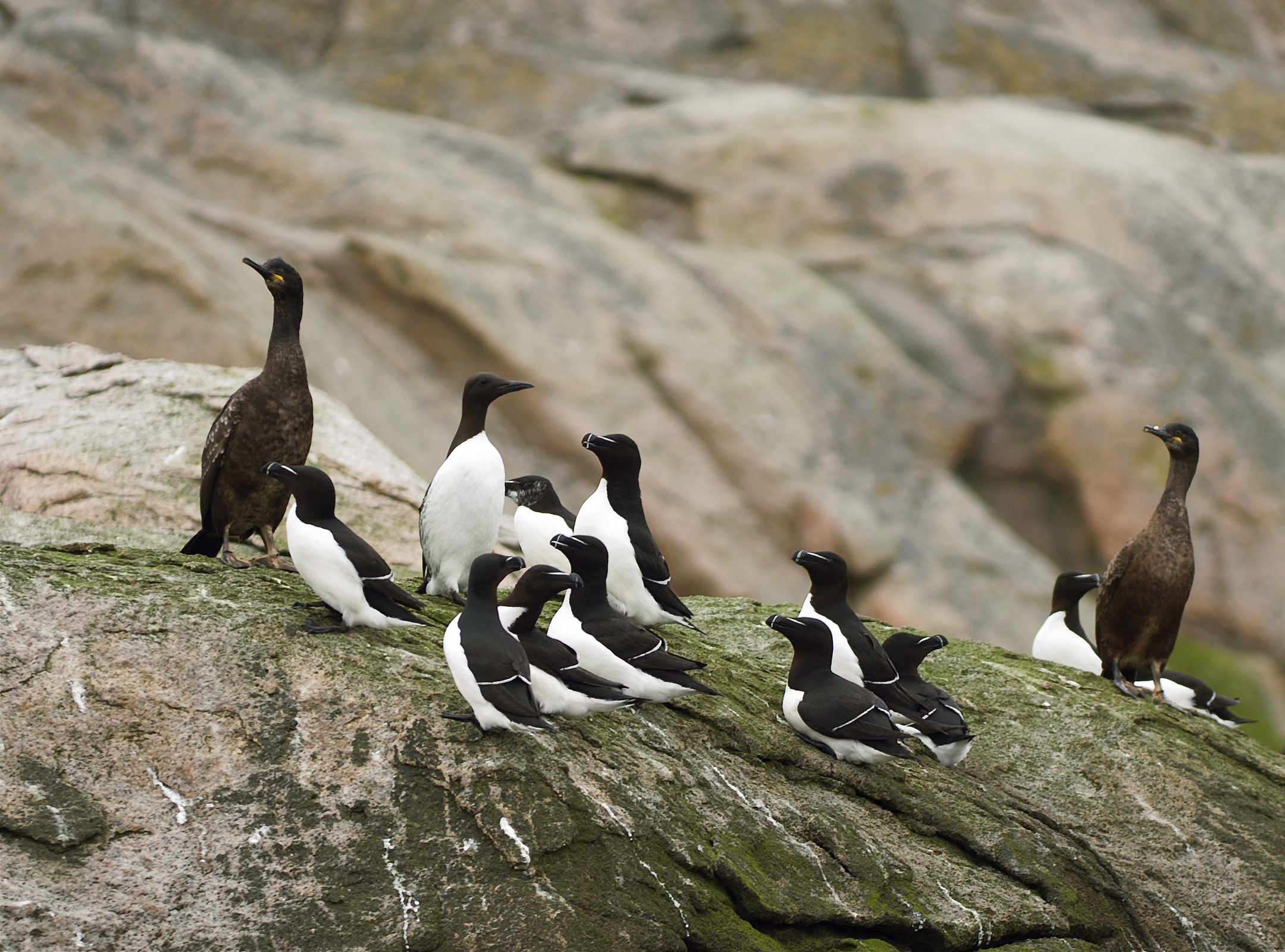 Seabird colony with Razorbills (Alca torda), European Shags (Phalacrocorax aristotelis) and a Common Guillemot (Uria aalge), Stø, Norway